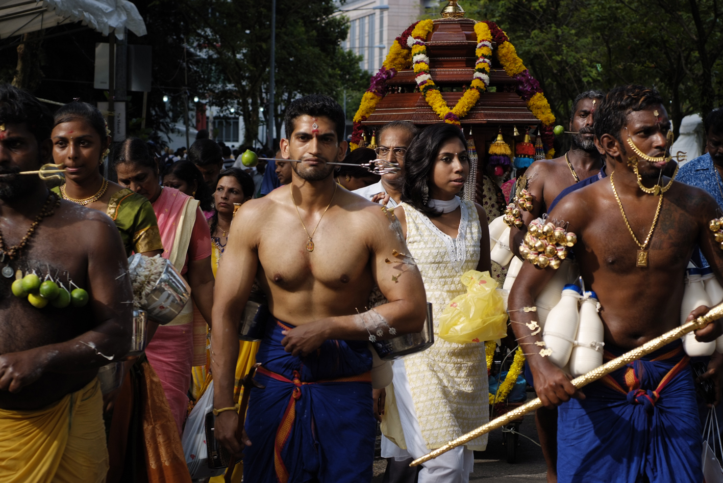 Singapore's Thaipusam Festival is rich with history and origin. Held in honour of the Hindu deity Subramaniam (Lord Murugan), Thaipusam is a day of prayer and thanksgiving for wishes granted and vows fulfilled. Shots are straight off the cam with light sharpening.